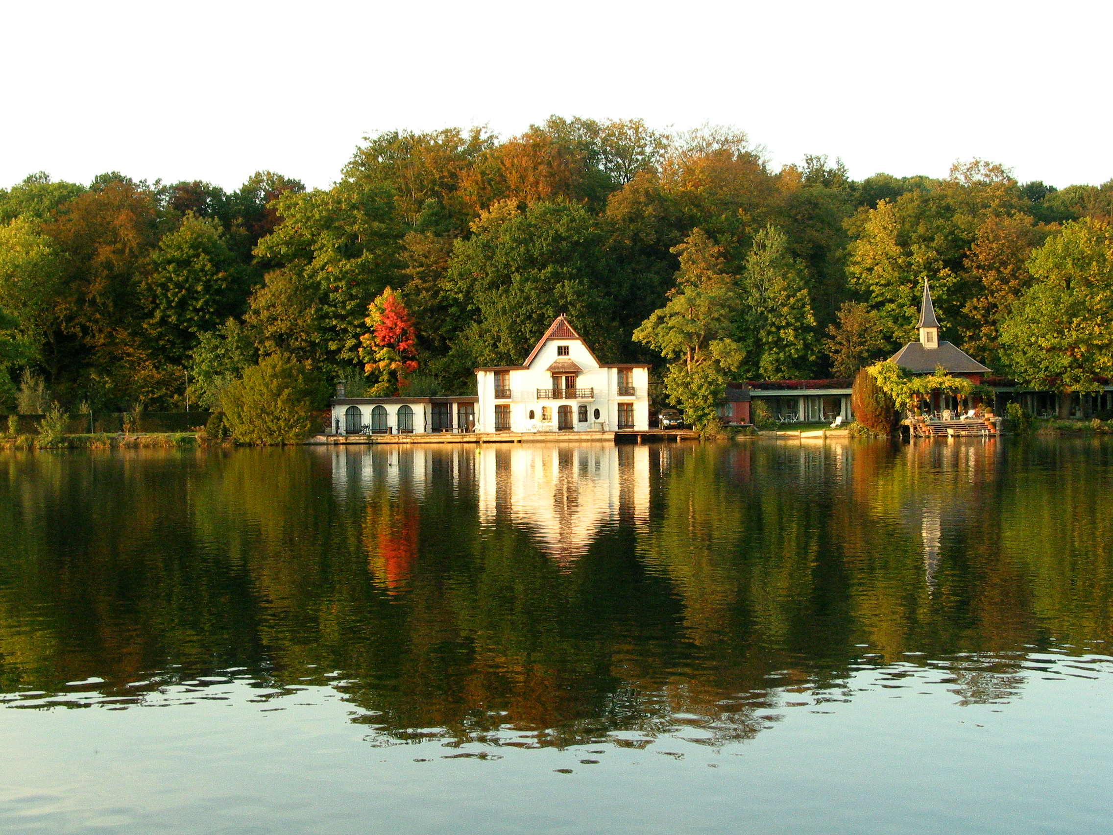 Overijse (Belgium), the lake.